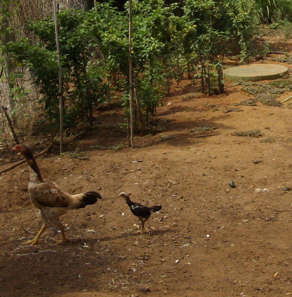 Agriculture in Israel